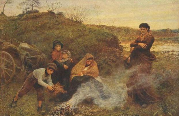 The Vagrants